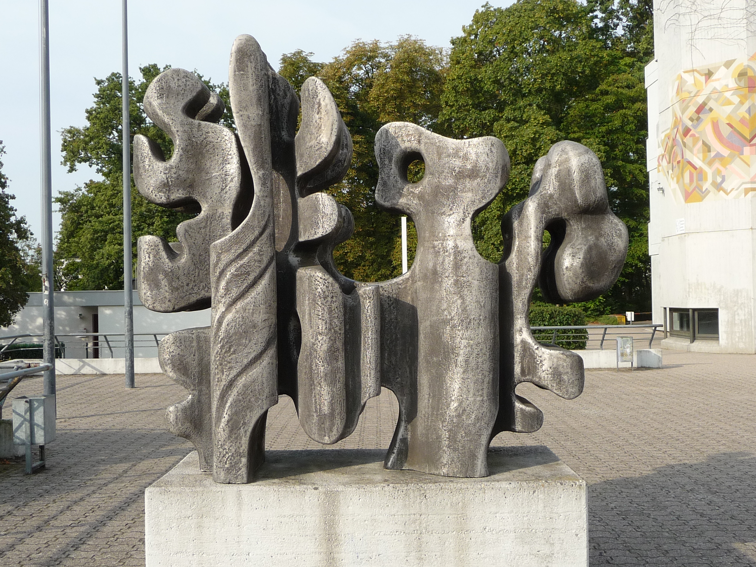 Sculptures in Germersheim